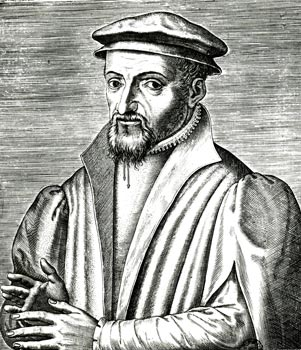 Pierre Viret (1511-1571)